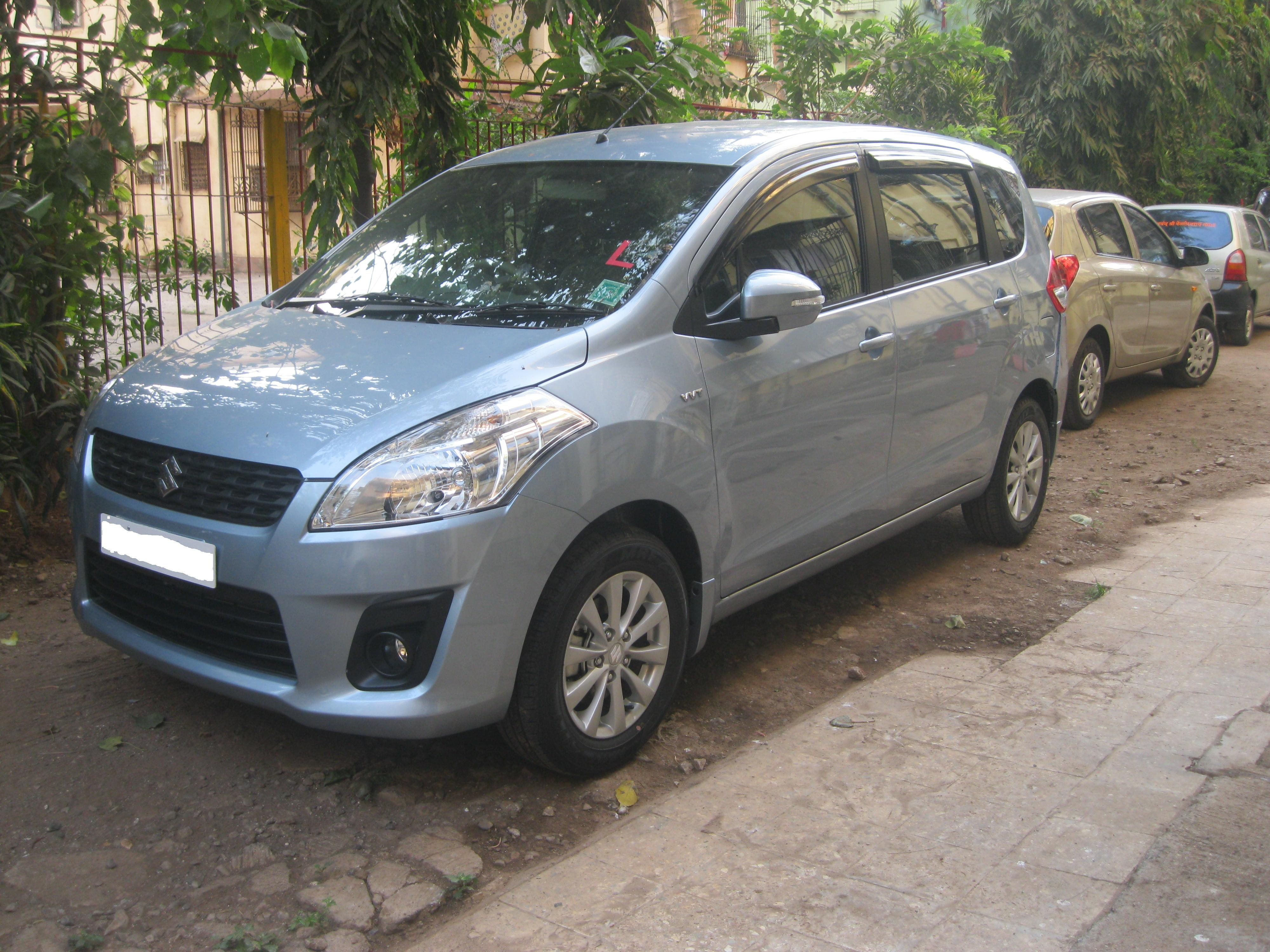 The